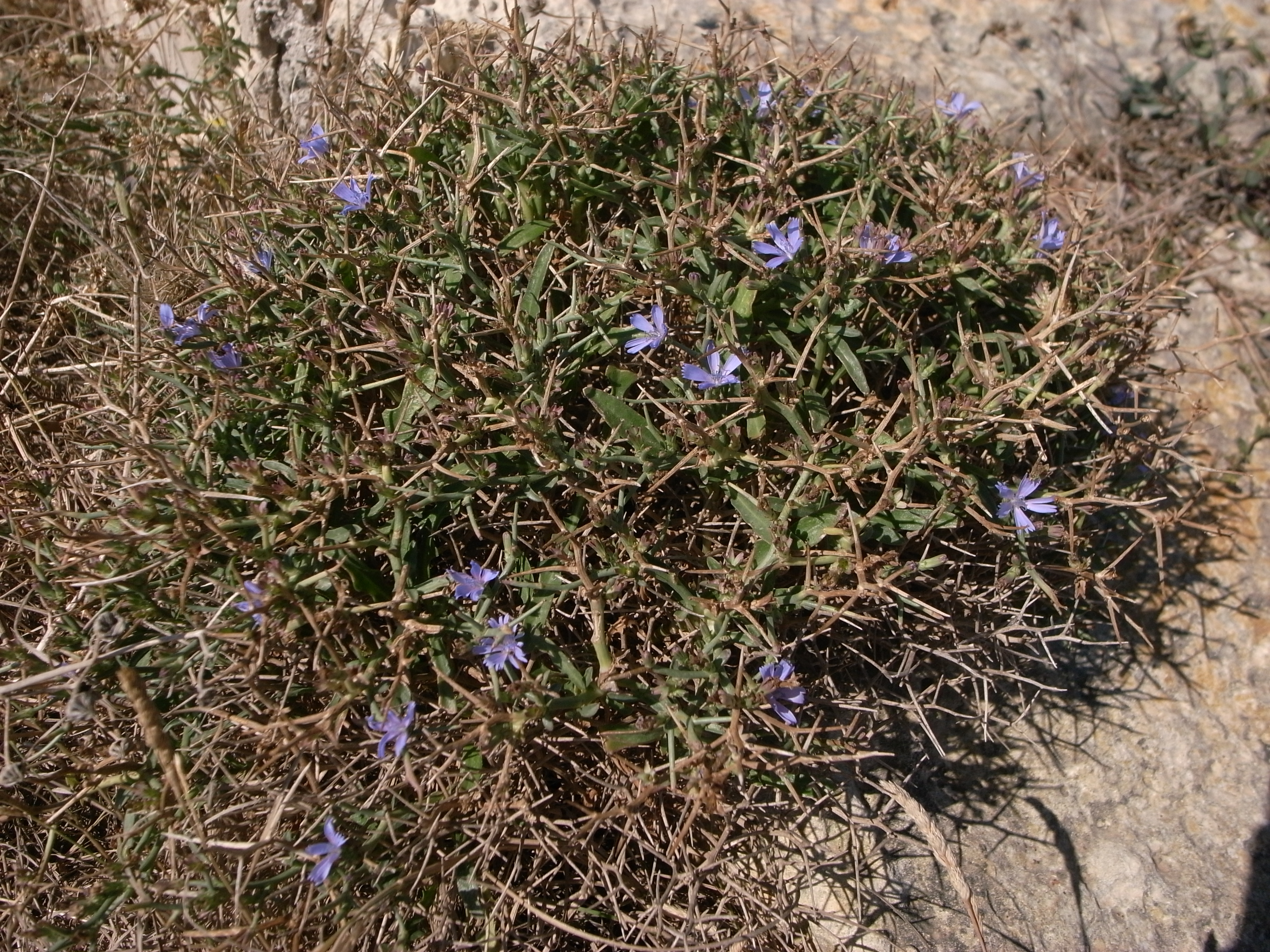 Cichorium spinosum, Pembroke Range, Malta